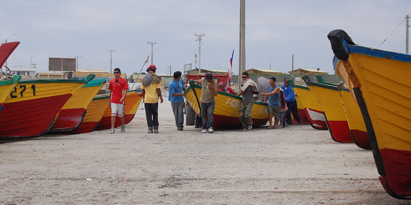 Fishermen of the town " The Choros".